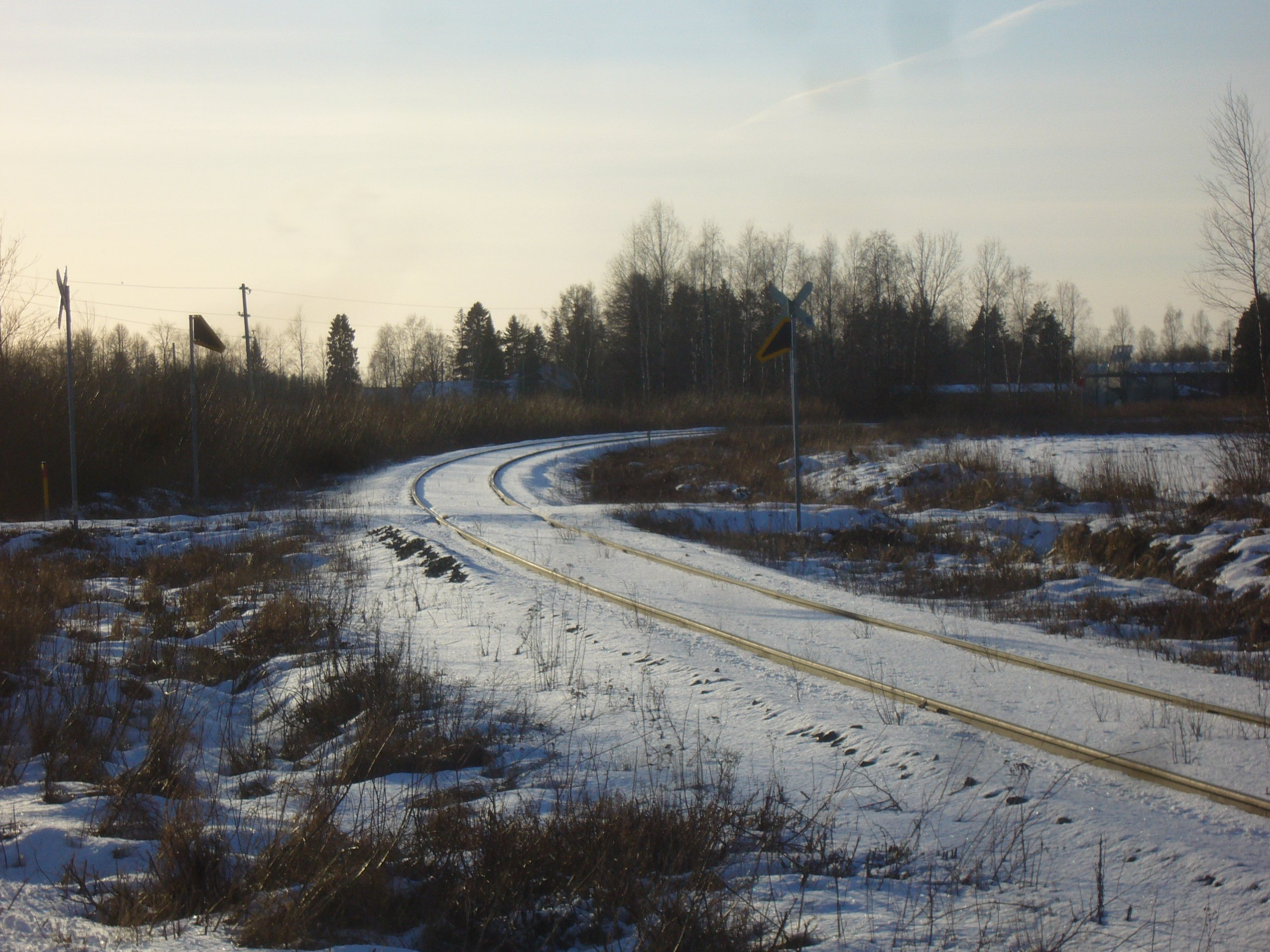 Seinäjoki–Kaskinen railway line in Aronkylä, Kauhajoki, Finland.